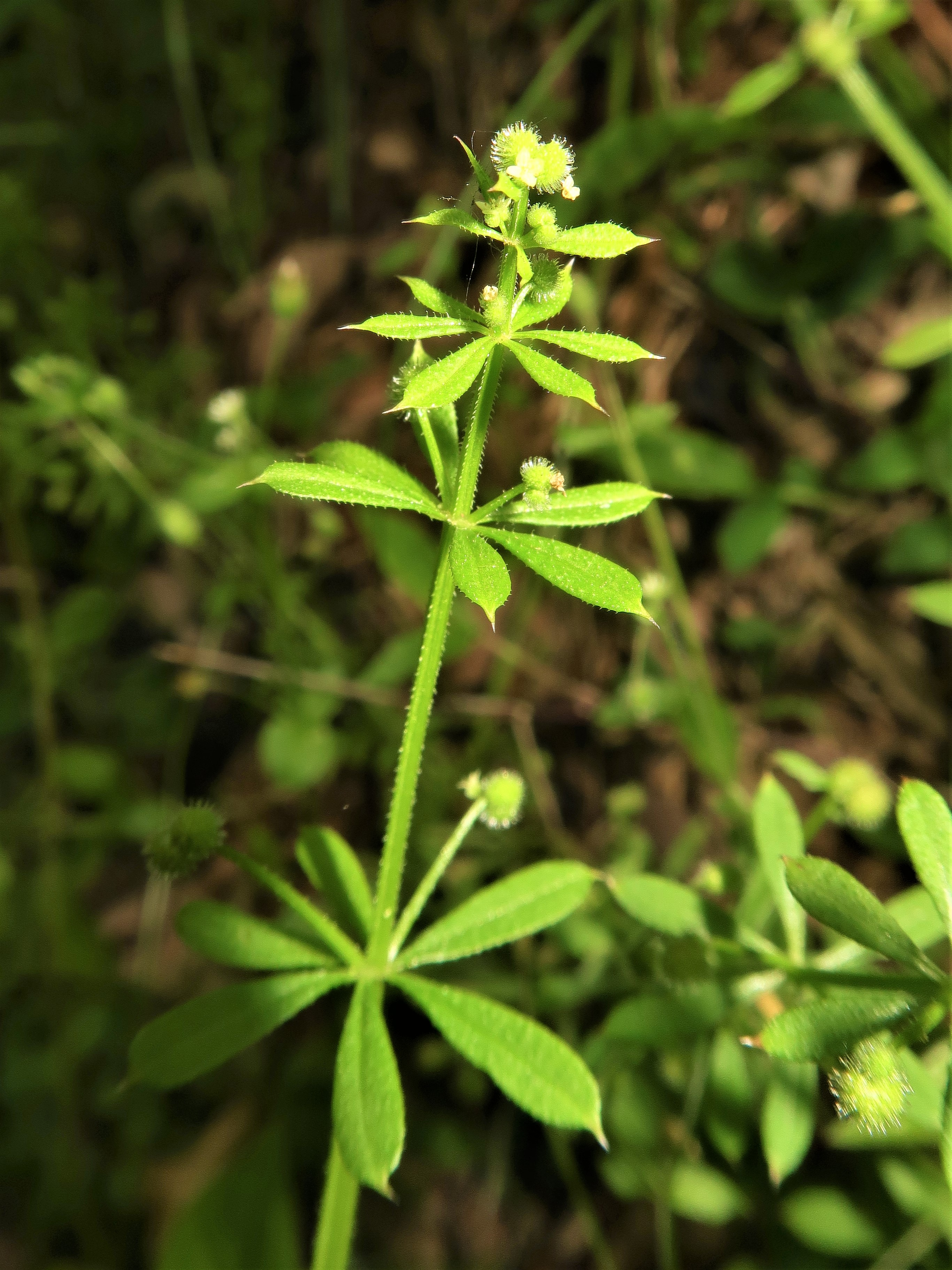 Galium spurium var. echinospermon, Naka-dori area, Fukushima pref., Japan